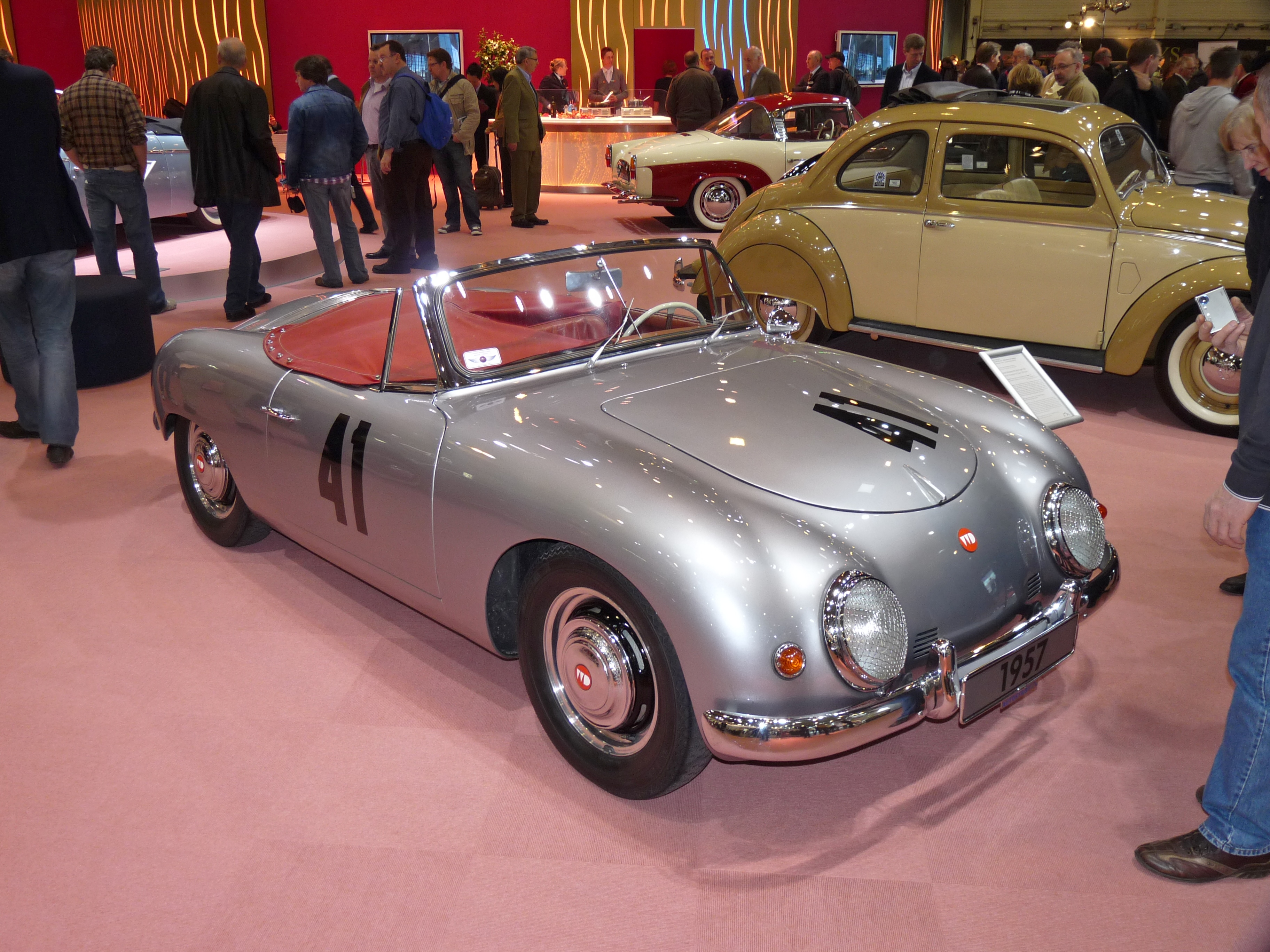 VW-based “Denzel WD Serien-Super 1300”, 1957, constructed by Austrian engineer and race driver Wolfgang Denzel